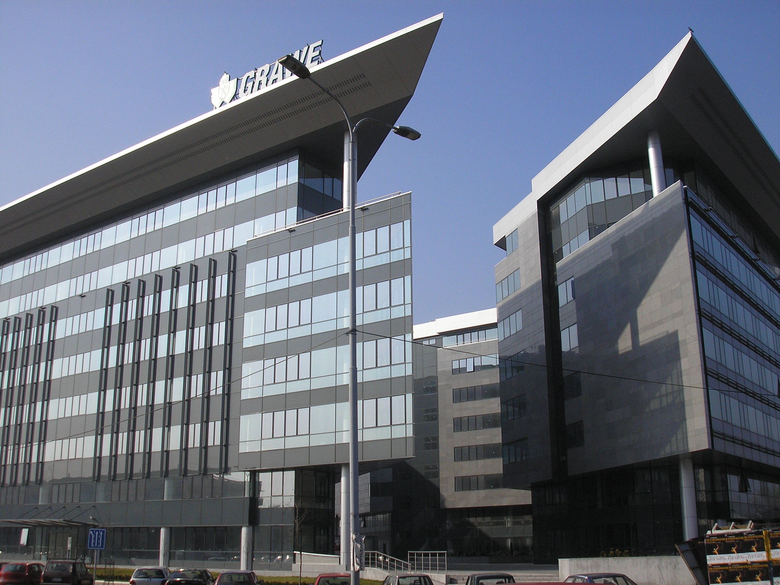 The business building on the east corner of 25th block, New Belgrade, Belgrade, Serbia